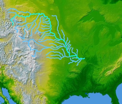 Missouri River